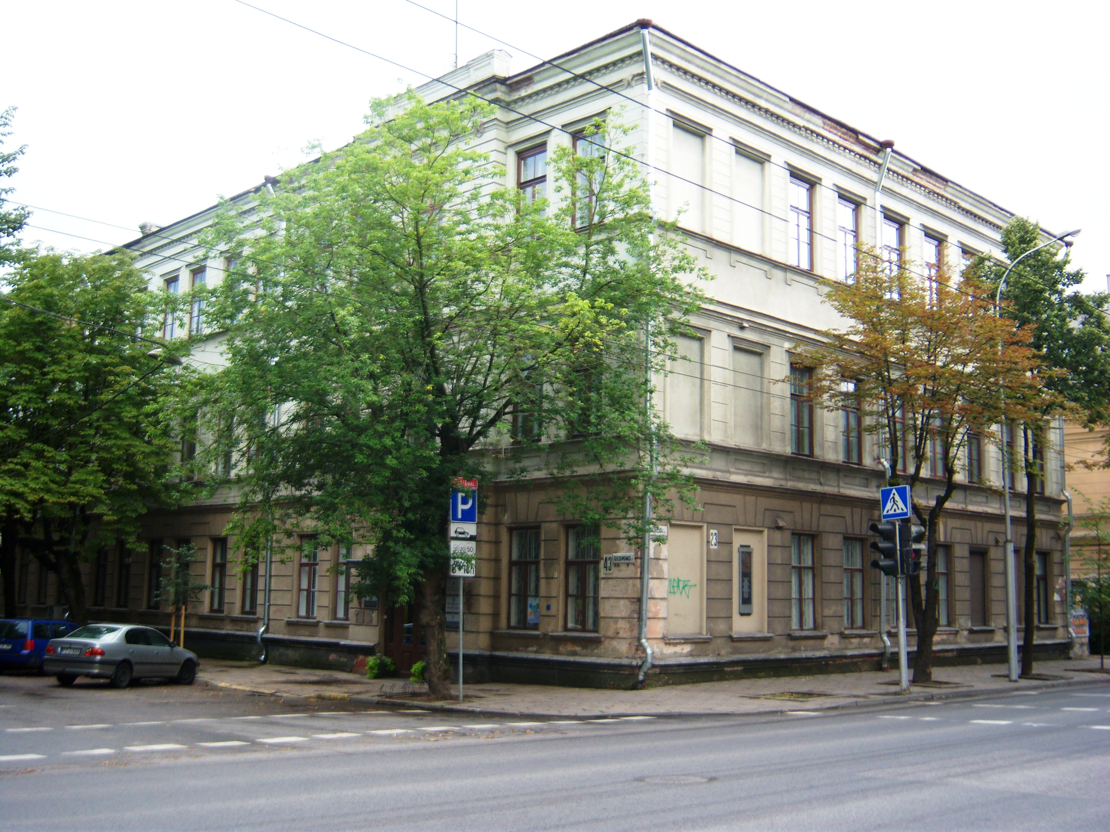 Gedimino 43, Kaunas, Lithuania